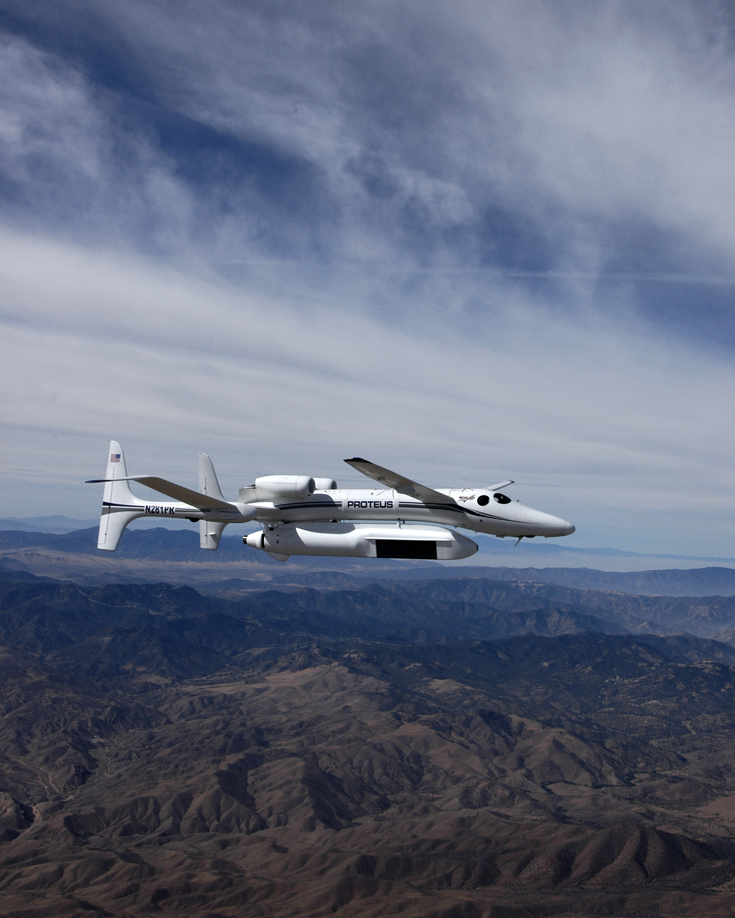 1Proteus aircraft flying over southern California carrying the Global Hawk variant of the new, Multi-Platform Radar Technology Insertion Program radar. This is the first flight test of the state-of-the-art radar system, which will be incorporated onto the Global Hawk and, in a larger configuration, onto a wide-body technology demonstrator. The Proteus is a high-altitude aircraft similar in size to Global Hawk